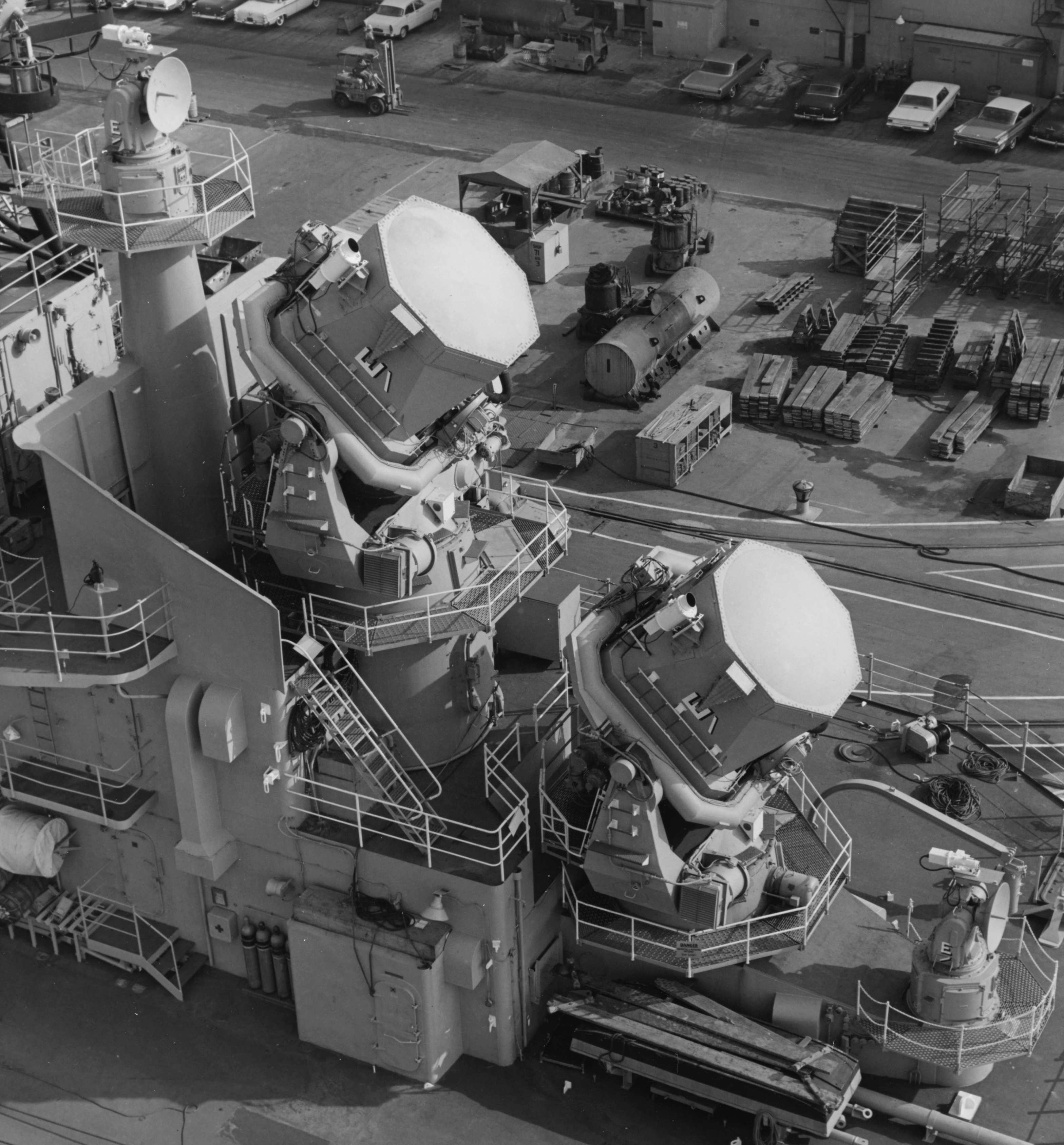 USS Oklahoma City (CLG-5): Plan view of guidance radars for the ship's RIM-8 Talos guided missiles atop her after superstructure, looking to starboard, taken while she was undergoing an inclining experiment at the Long Beach Naval Shipyard, California (USA), 19 October 1963. These antennas include SPW-2 (smaller dish antennas) and SPG-49, the latter with "E with a hashmark" awards painted on them.